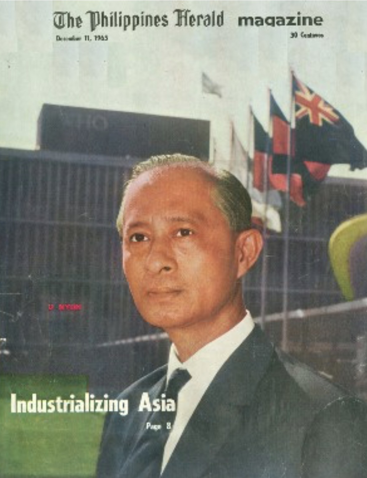 U Nyun (Magazine cover photo at 1955) Sithu U Nyun was a Burmese development economist, diplomat and intellectual who served as the Executive Secretary as the head of United Nations Economic and Social Commission for Asia and the Pacific.